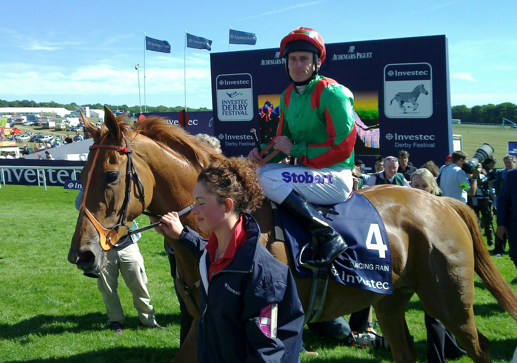 Jockey Johnny Murtagh and filly Dancing Rain return to winner's enclosure after winning the Investec Oaks at Epsom in June 2011.